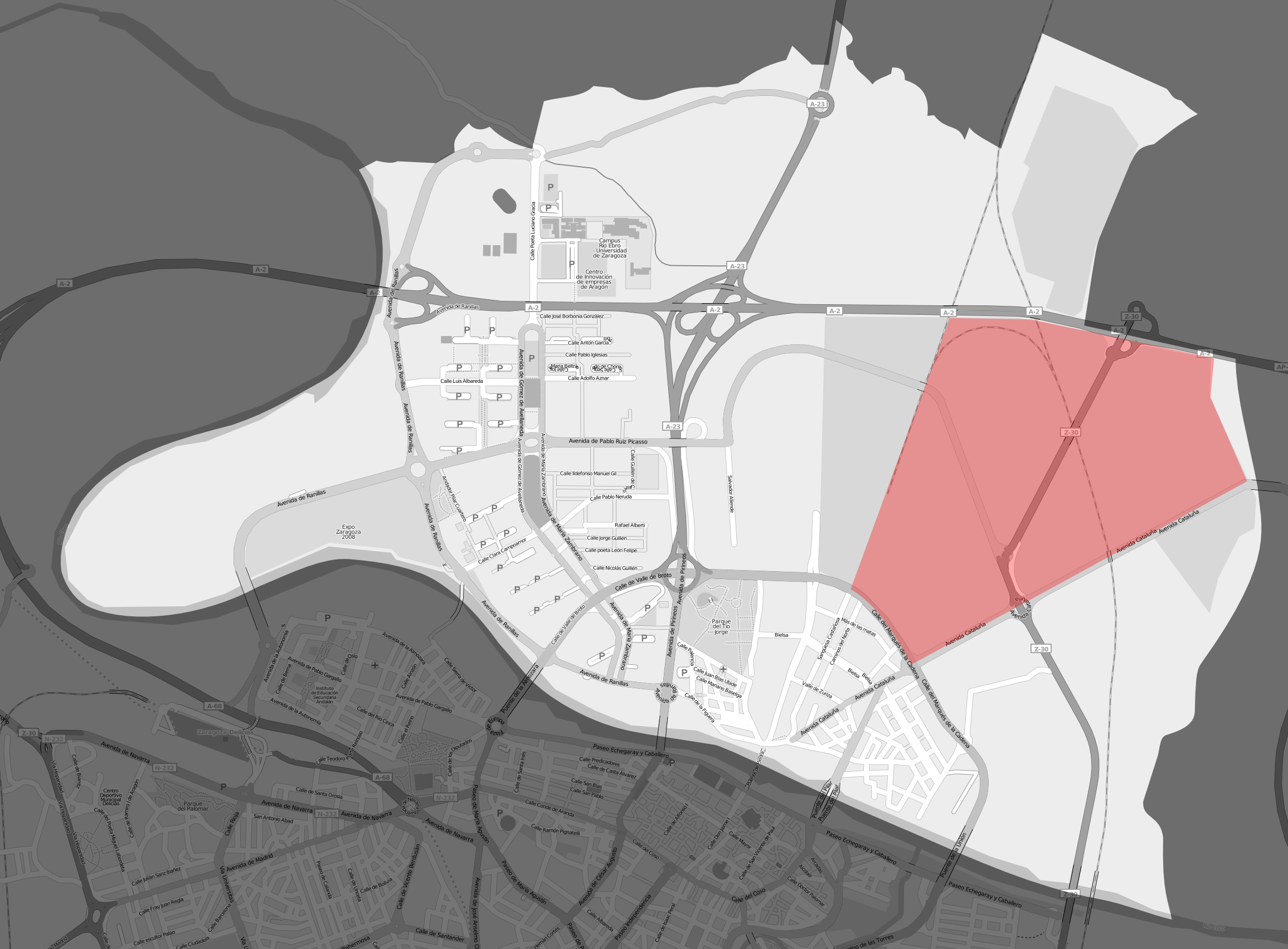 This map may be incomplete, and may contain errors. Don't rely solely on it for navigation.